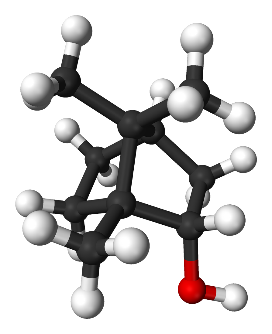 Ball-and-stick model of the borneol molecule